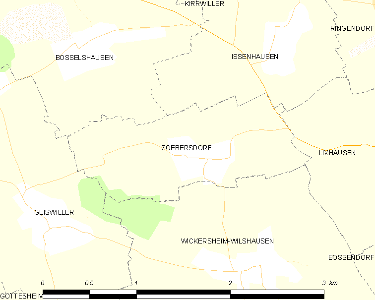 Map of French municipality